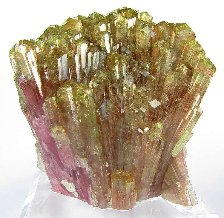 Liddicoatite Locality: Minh Tien Mine, Luc Yen, Yenbai (Yen Bai) Province, Vietnam (Locality at ) Size: 8.5 x 7.6 x 4.7 cm. For a brief time in the early 2000s we saw a few finds each year from Vietnam, of interesting tourmalines. Most were opaque and frankly just locality pieces, but this pocket took me by surprise (about 2005 if I recall). It features exceptionally glassy crystals in radiating sprays, with a hot pink core from which shoot out greenish-tinged secondary crystals. The color gradient is subtle and hard to describe in words, but I think obvious in the photo. This specimen is large for the style, has excellent overall form, and has excellent lustre. It has a small bit of attached mica on back (where it is contacted), and has some contact zones and minimal damage to the left side - but otherwise it is complete. The splayed-out nature of the habit is also well-developed here, making the piece more interesting than the typical "vertical stick" appearance of so many tourmalines. I have not seen more of this style in years now. Weighs 389 grams.